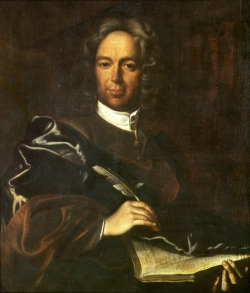 This is a painting that shows Matej Bel